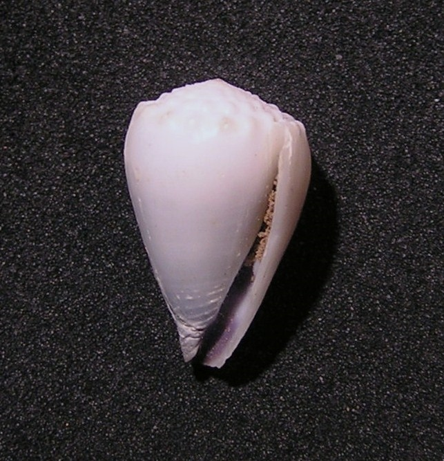 Conus nanus G.B. Sowerby I, 1833 ; French Polynesia